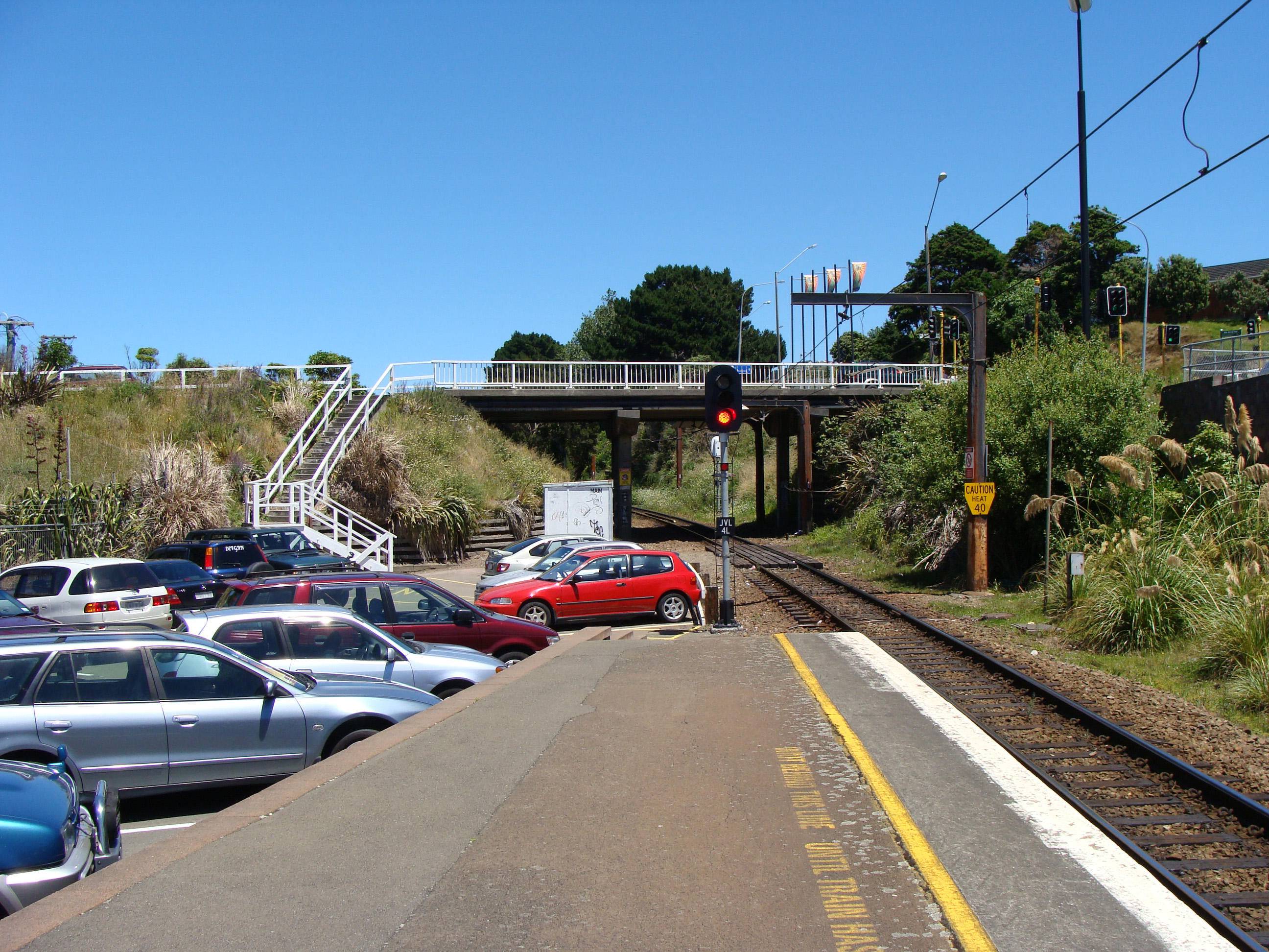 Southern end of the Johnsonville Railway Station platform. In the background is the Broderick Road overbridge.